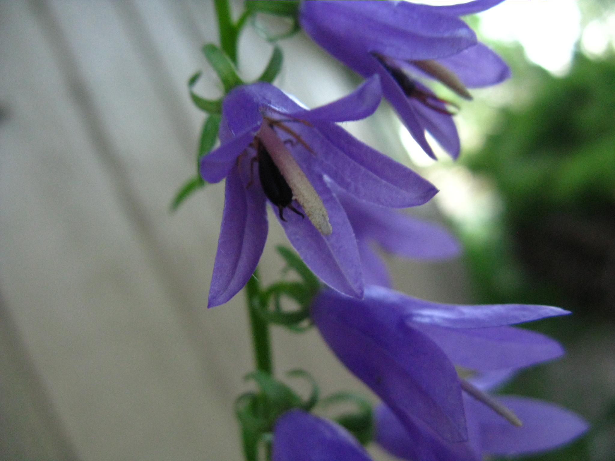 An Earwig hiding in a flower